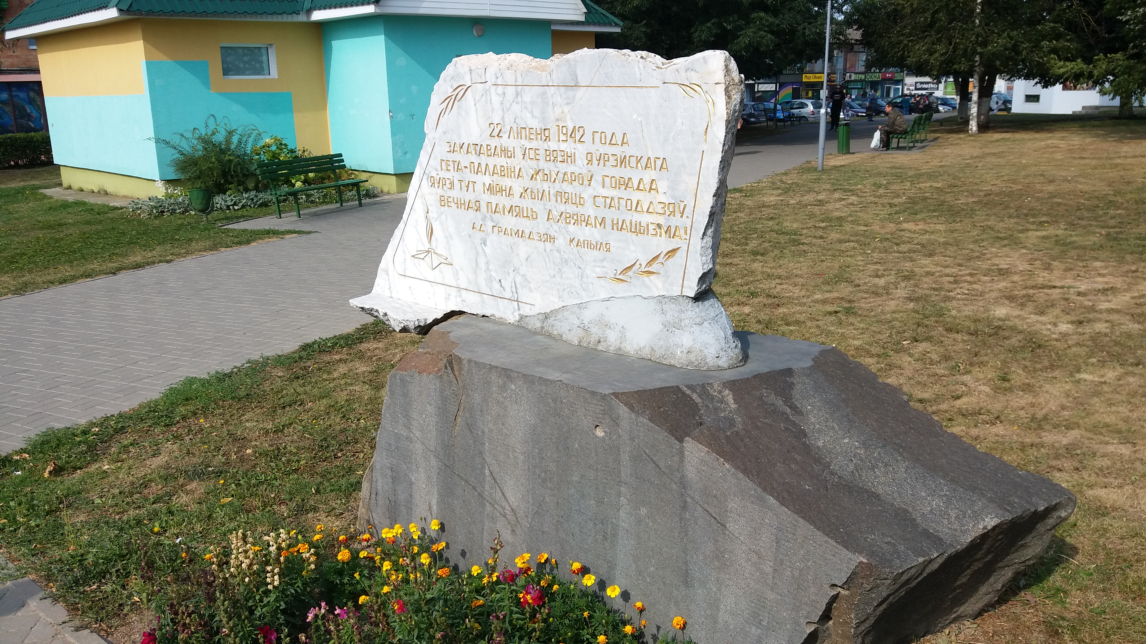 Monument to victims of the Kapyl ghetto